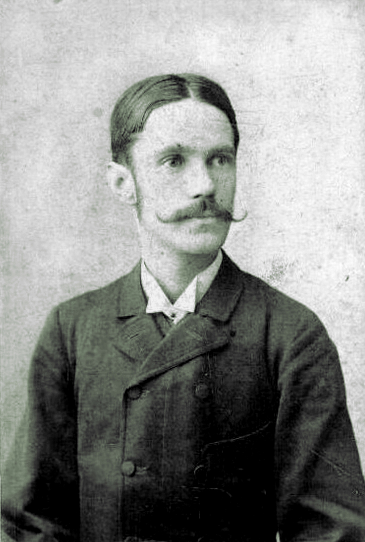 Gyula Reviczky 1850-1889, Hungarian poet, photo of 1875.